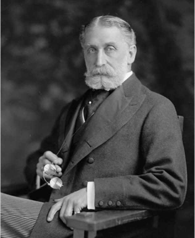 Isaac Newton Seligman 1915